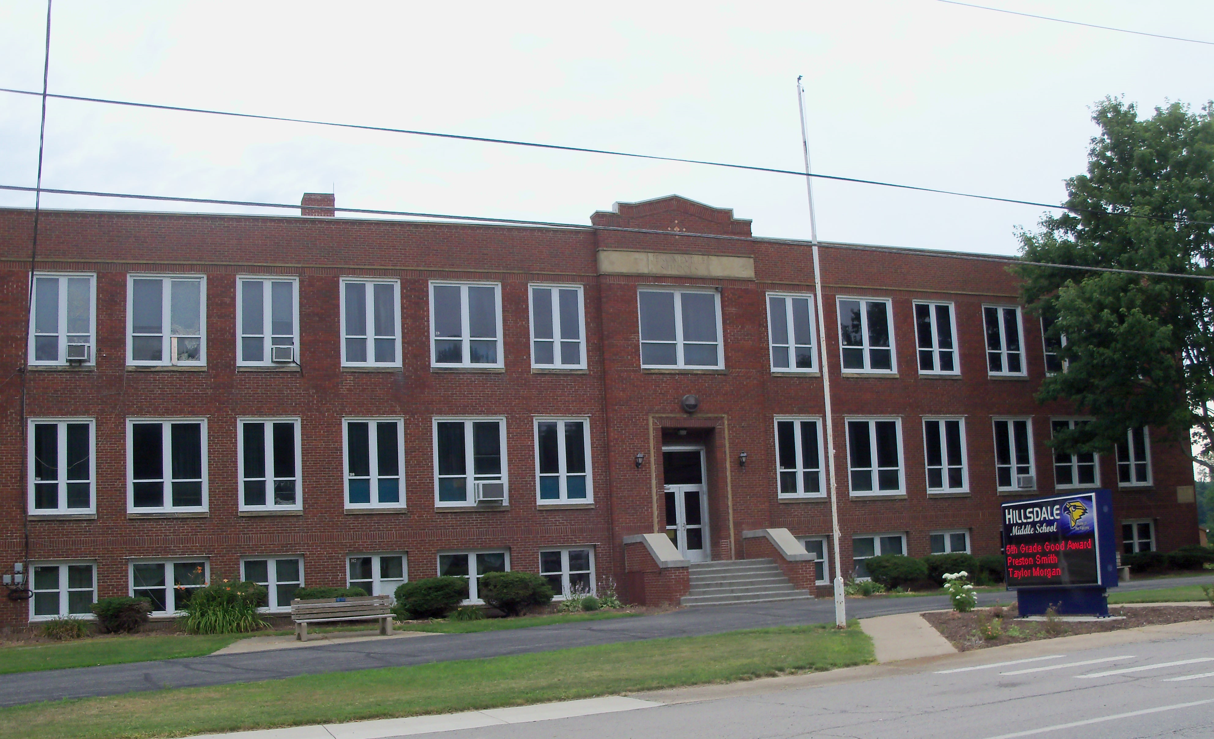 Hillsdale Middle School in Jeromesville, Ohio, inscription on building reads "Jeromeville Schools"